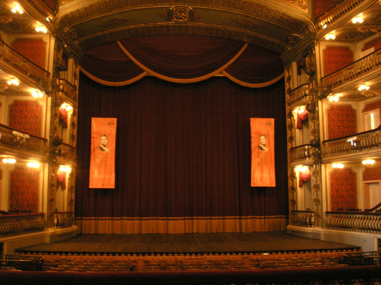 Interior of the Teatro da Paz in Belém, Brazil